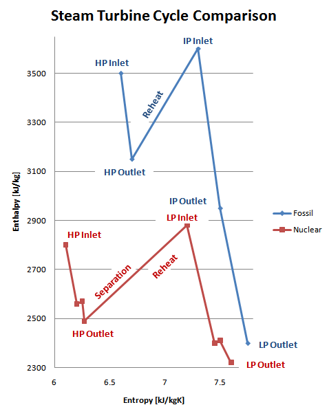 Enthalpy - Entropy (H - S Mollier Diagram) of Steam Turbine Nuclear and Fossil Steam Turbine Comparison